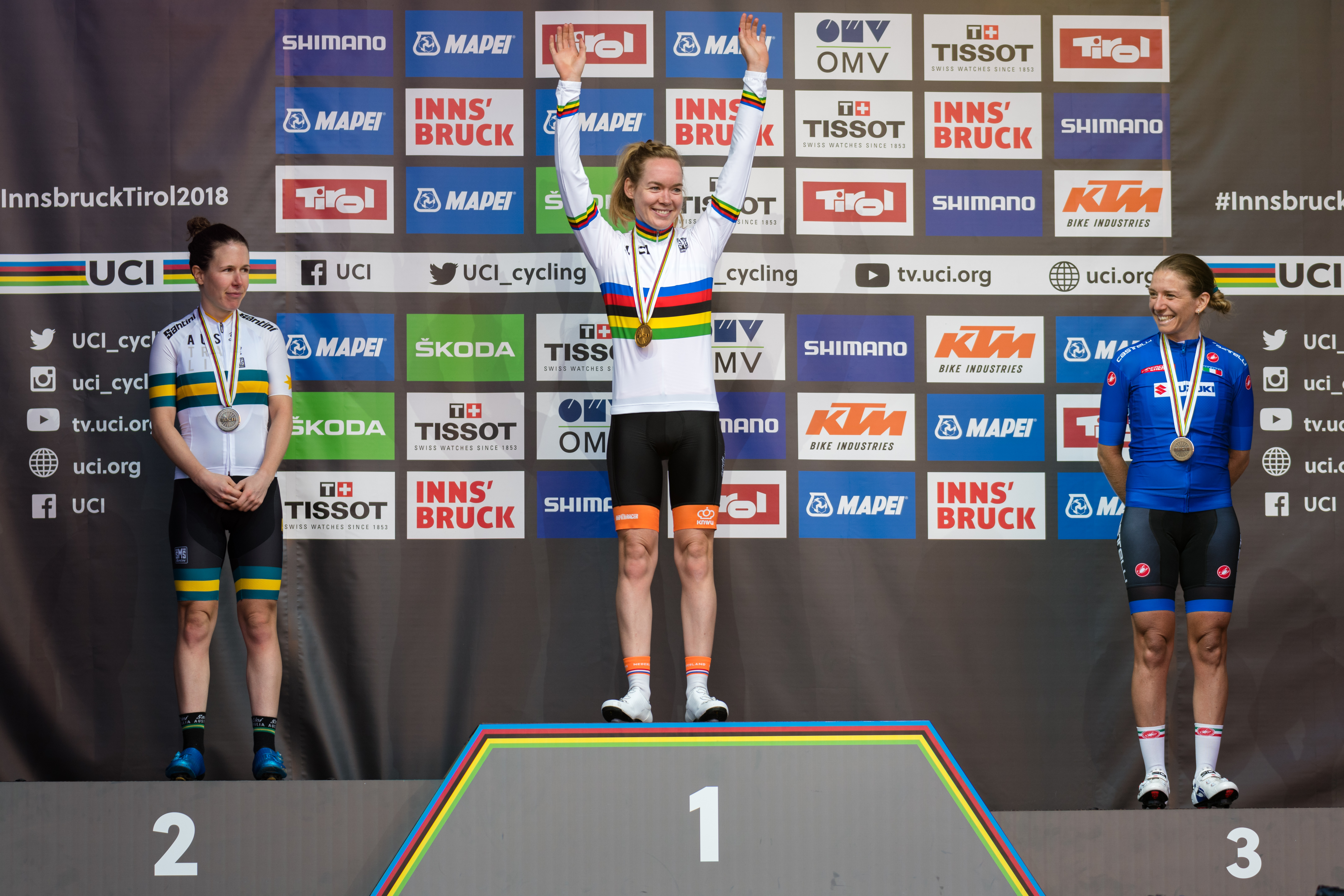 2018 UCI Road World Championships Innsbruck/Tirol Women Elite Road Race. Picture shows: Award Ceremony with Amanda Spratt of Australia, winner Anna van der Breggen of the Netherlands and Tatiana Guderzo of Italy